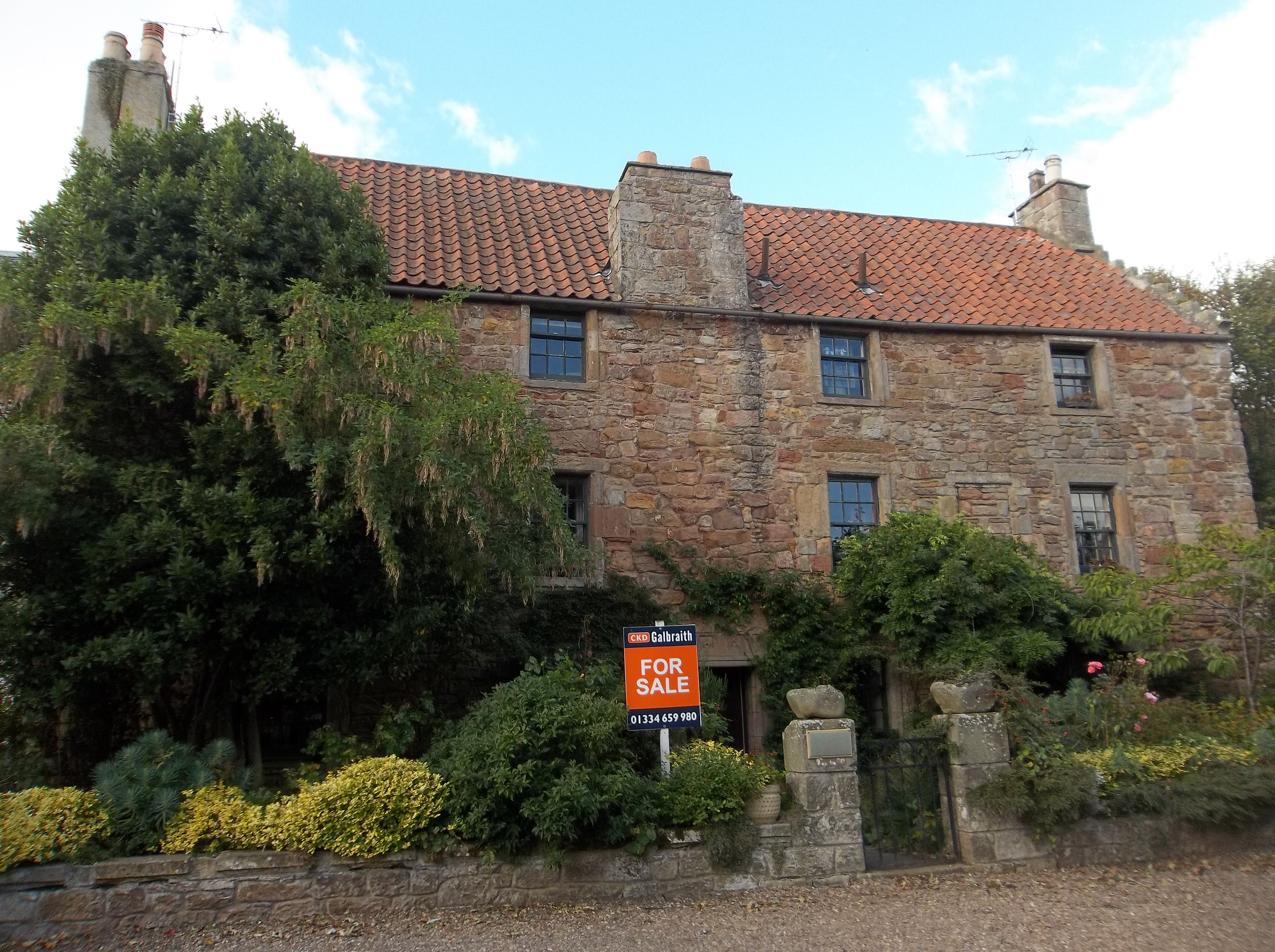 Friar's Court